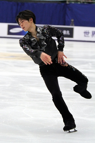 Tatsuki Machida during his short program at 2010 Cup of China.